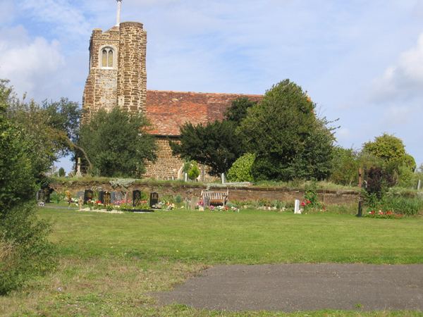 Parish church of St Mary the Virgin, Lower Gravenhurst, Bedfordshire, seen from the south